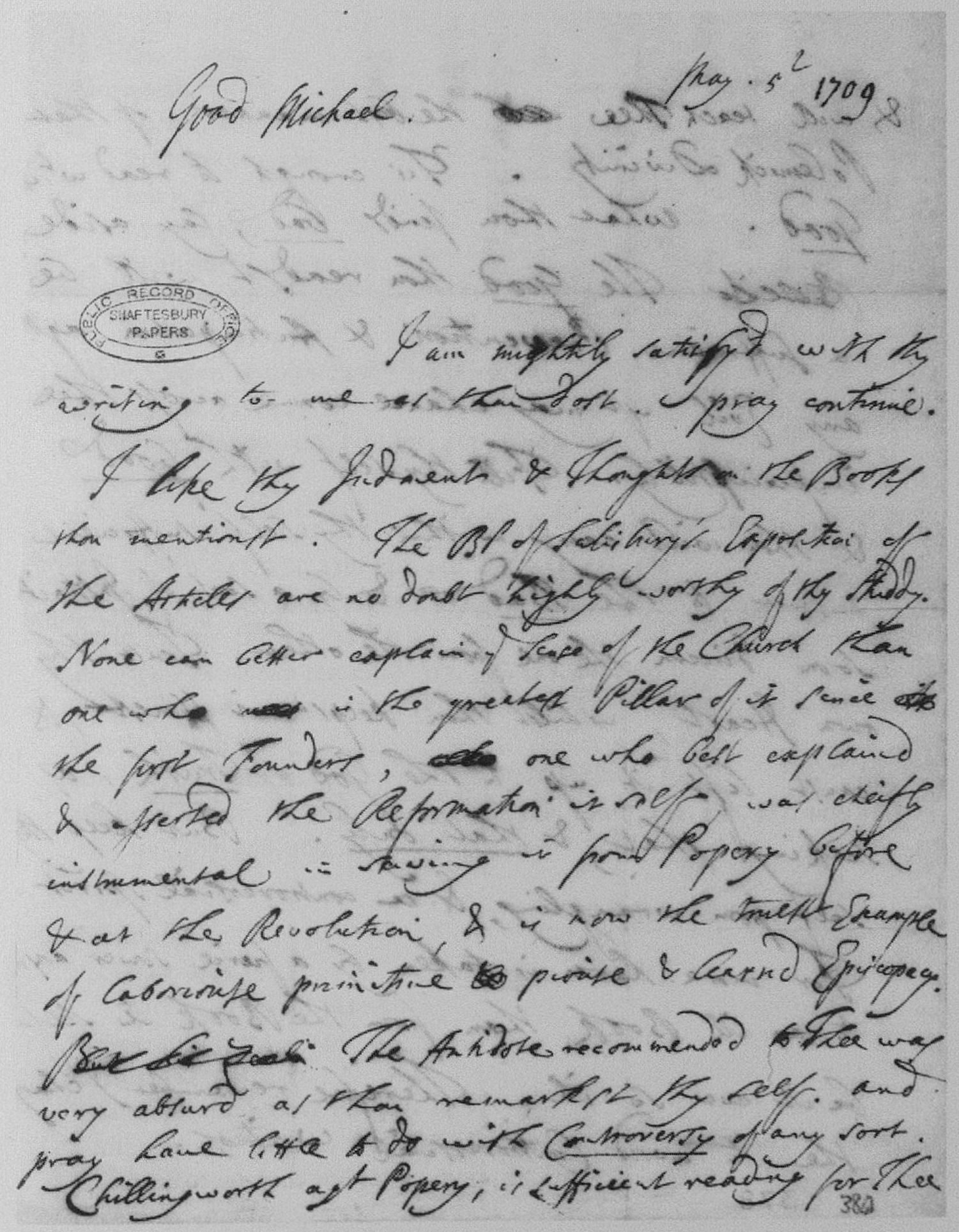 The beginning of an autograph letter to Michael Ainsworth. Kew, The National Archives, PRO 30/24/20/143.